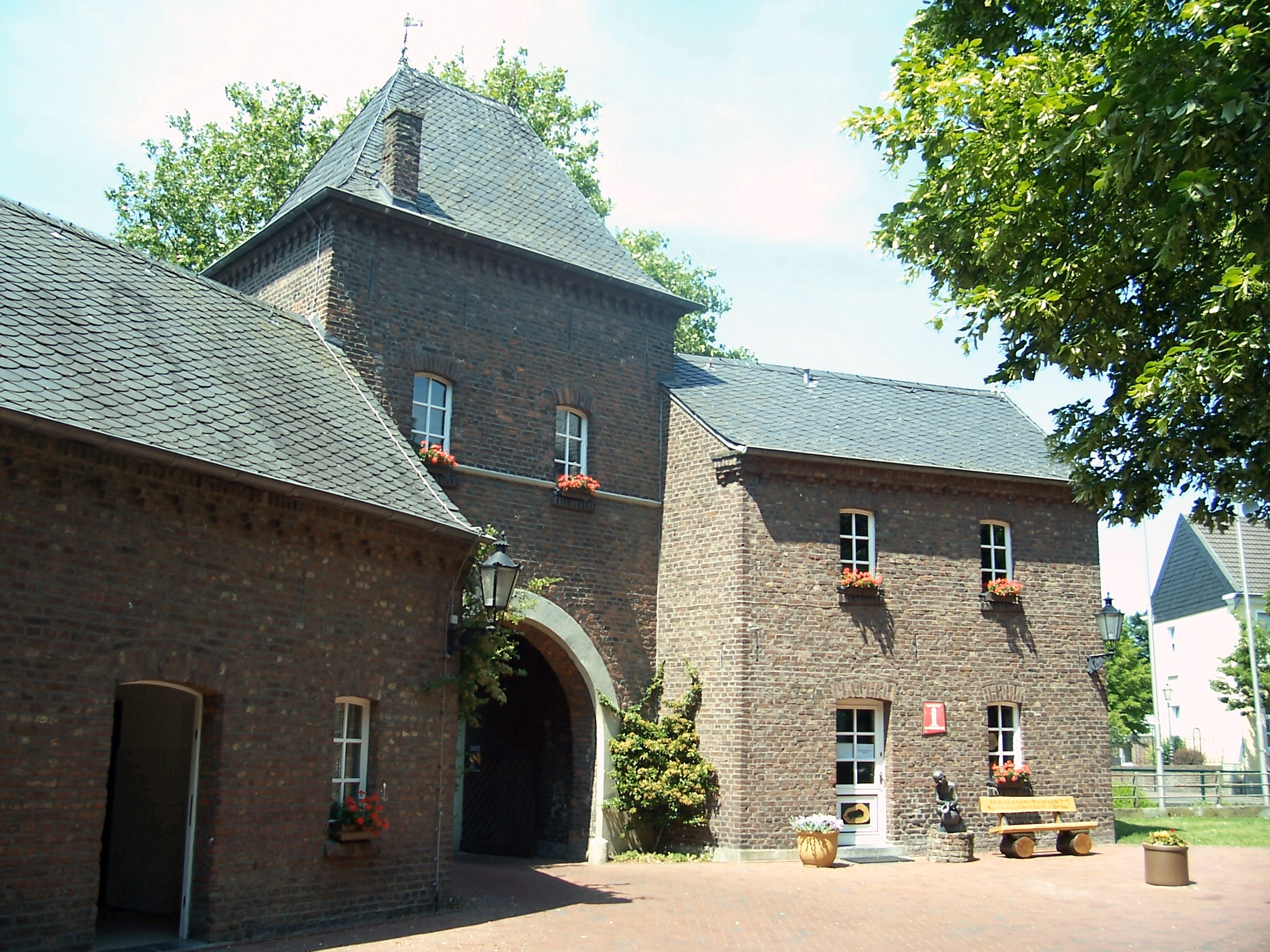 Gate Entrance to "Haus Issum", in Issum, Germany